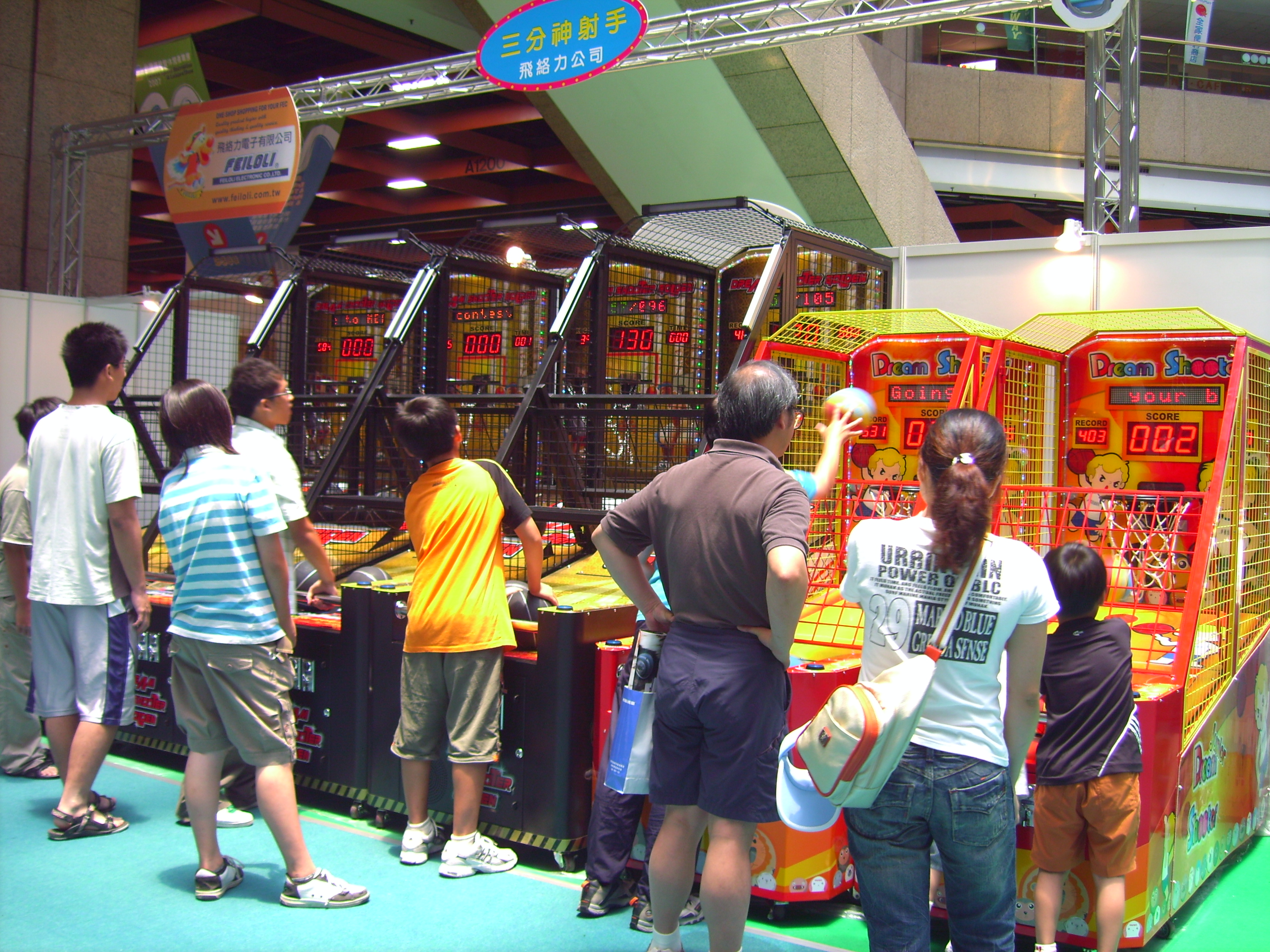 Leisure Taiwan 2007: Basketball Machine section at Digital Entertainment Pavilion.